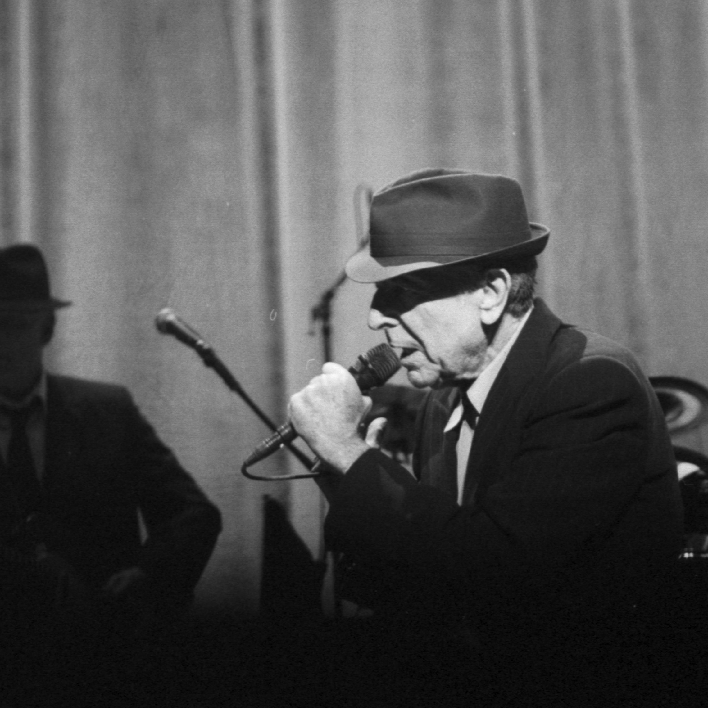 Leonard Cohen during his 2008 tour.